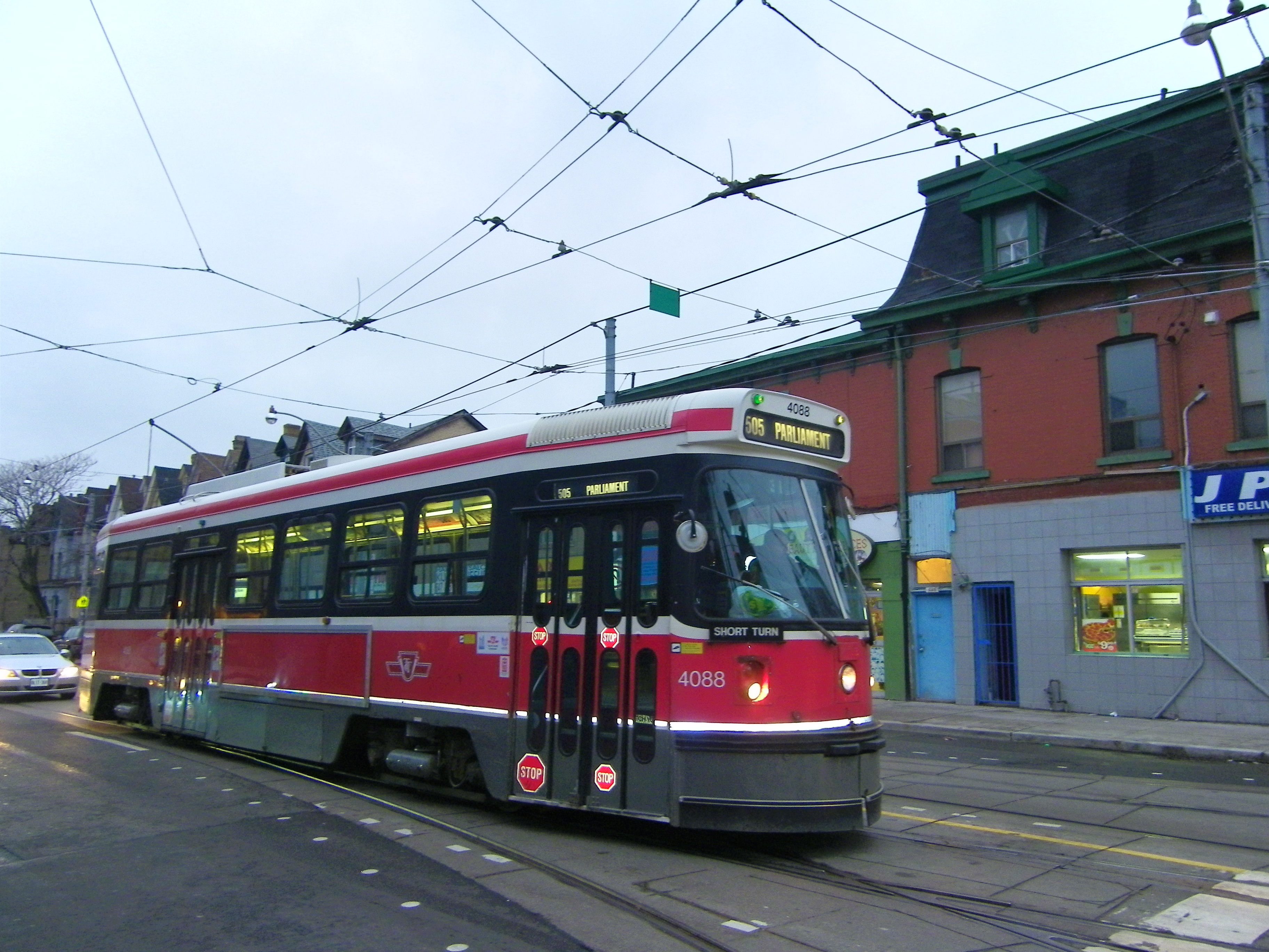 Dundas streetcar at Dundas and Parliament streets, Toronto.